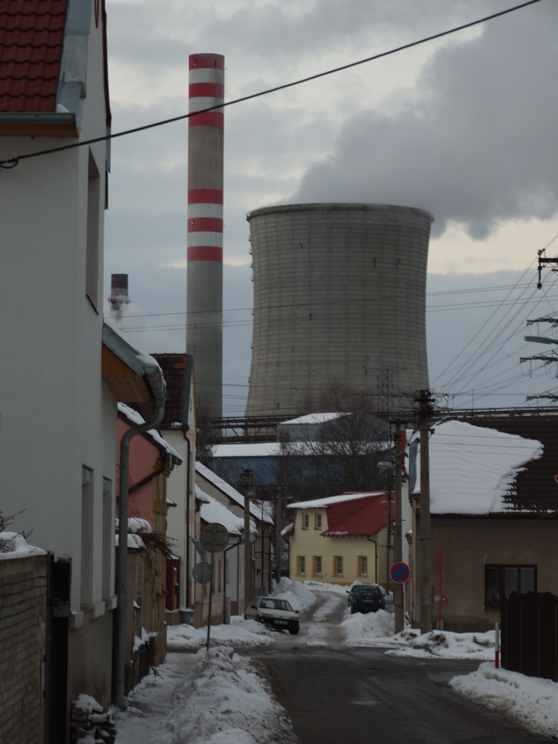 Dříň, a village in Kladno, Central Bohemian Region, CZ